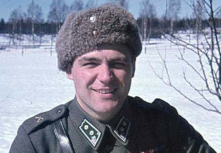 Librarian, author and translator Harry Järv at World War II between 1941 and 1943.